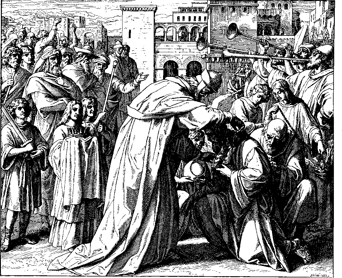 Woodcut for "Die Bibel in Bildern", 1860.